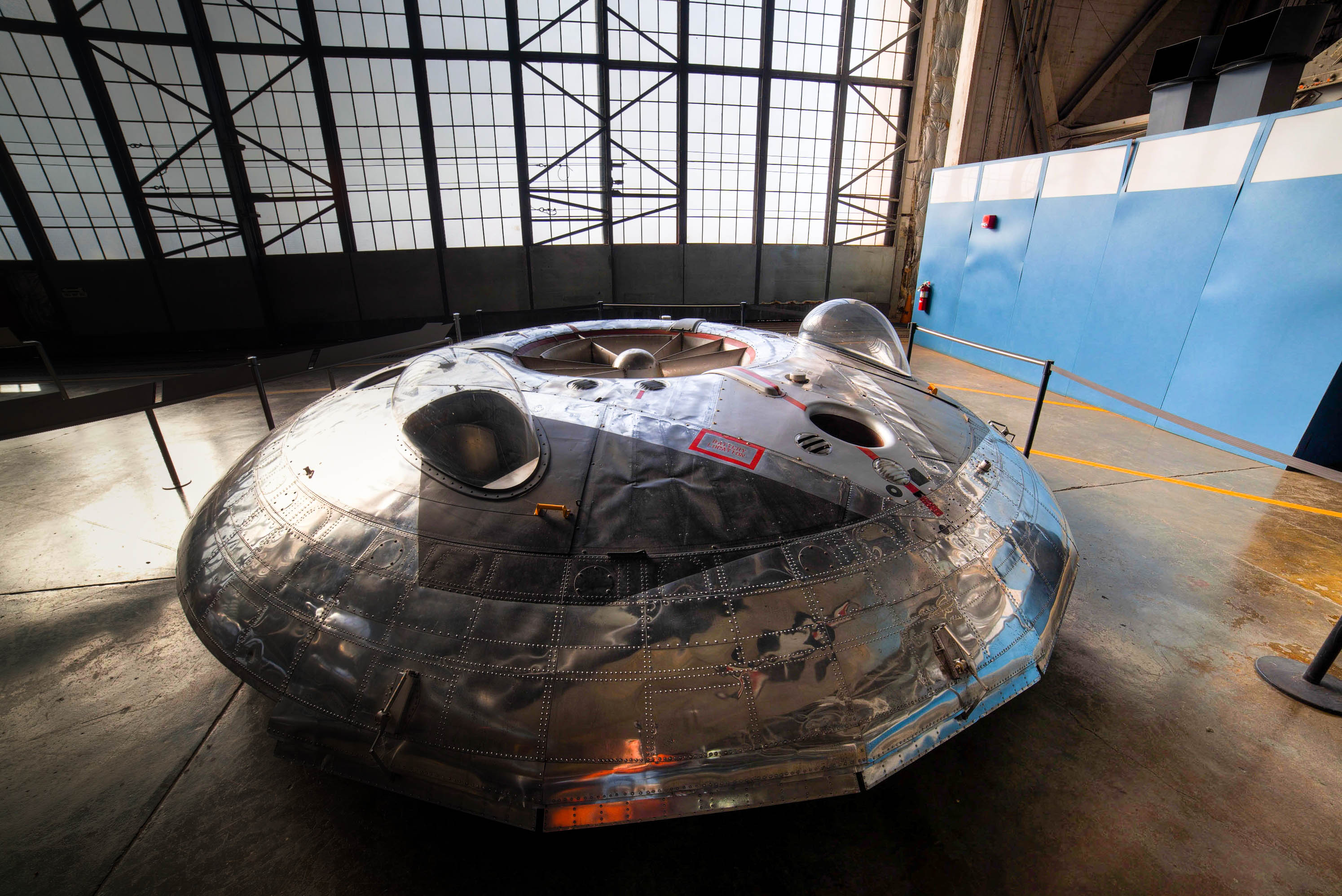 This craft is on display in the research and development extension.